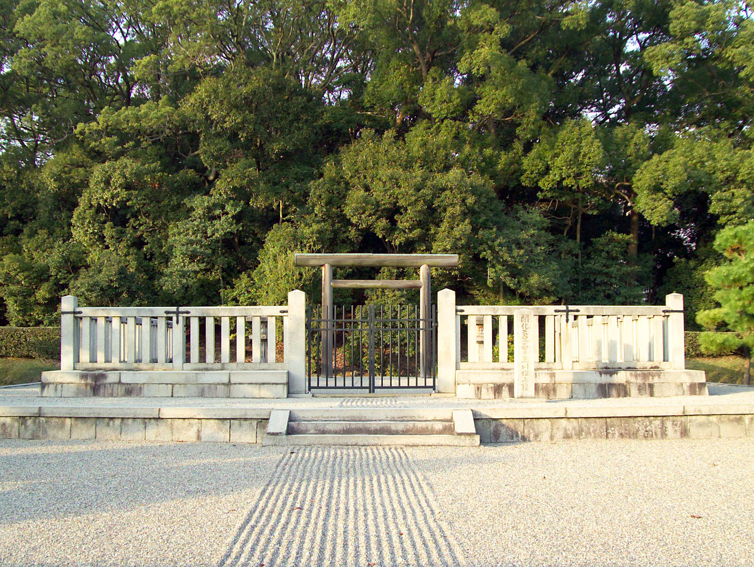 Tomb of Emperor Kaika, Nara, Nara Prefecture, Japan. I took this photo and contribute my rights in the file to the public domain; individuals and organizations retain rights to images in it. See also Stone to right of center